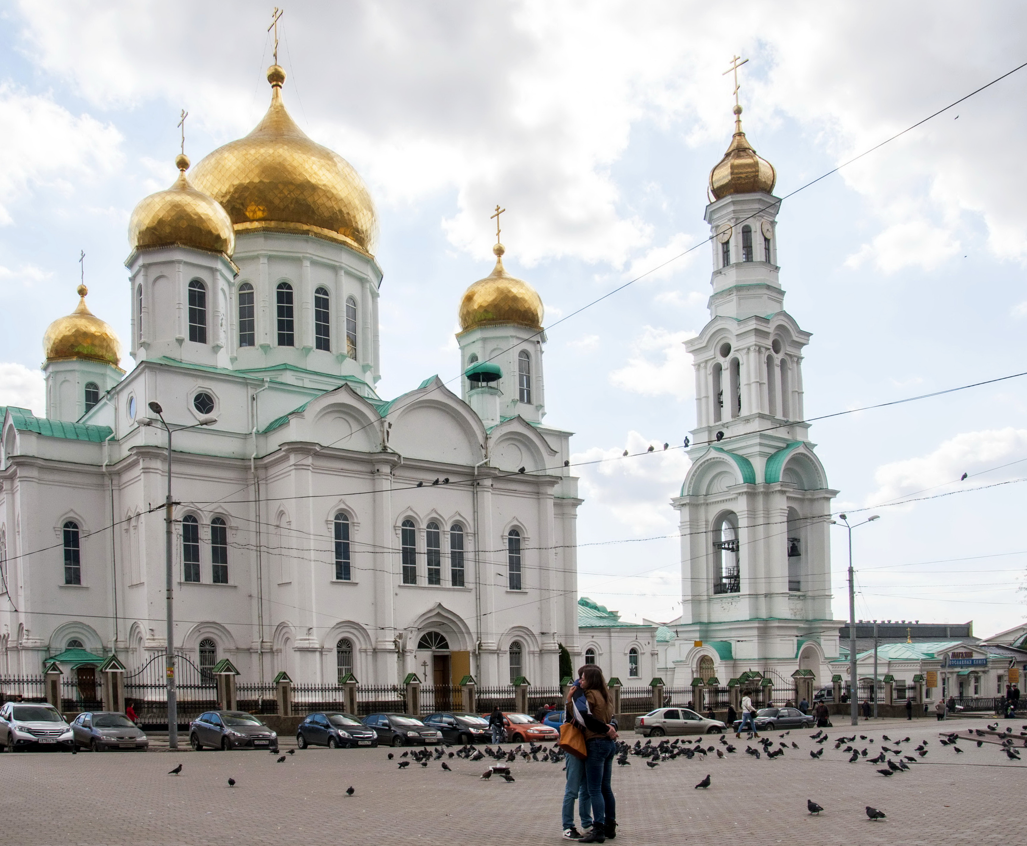 Cathedral of the Nativity of the Blessed Virgin Mary in Rostov-on-Don, Russia